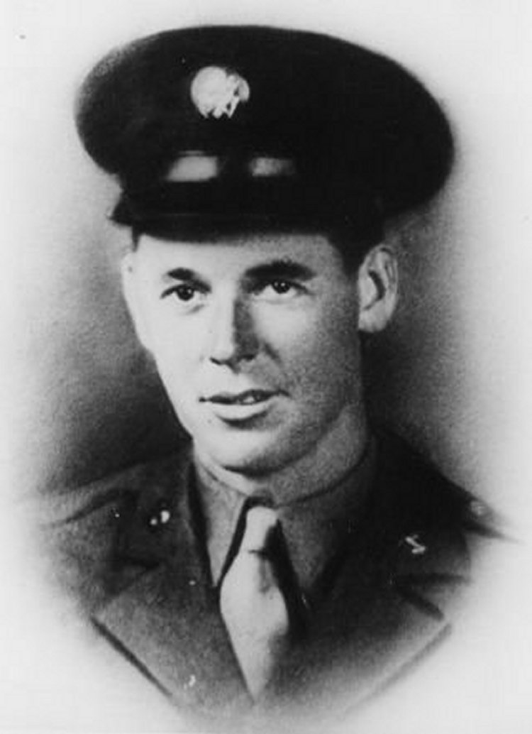 Staff Sergeant Archer T. “John” Gammon, a native of Virginia, was serving with Company A, 9th Armored Infantry Battalion, 6th Armored Division, near Bastogne, Belgium, on 11 January 1945. On that day, he charged through hip-deep snow to demolish an enemy machine gun position and allow his platoon to advance from an open field to nearby woods. As the platoon started its advance, a machine gun supported by riflemen and a Tiger Royal tank opened fire on the unit. Sgt. Gammon rushed forward; cut across the width of his platoon's skirmish line; then, despite intense enemy fire, charged and silenced the automatic weapon and attacked the enemy tank. Advancing to within 25 yards of his objective, he put the enemy on the defensive and forced the tank back a short distance before he was struck and killed by a direct hit from the tank's heavy gun. For his action in clearing the way for his platoon, Sgt. Gammon was awarded, posthumously, the Medal of Honor.